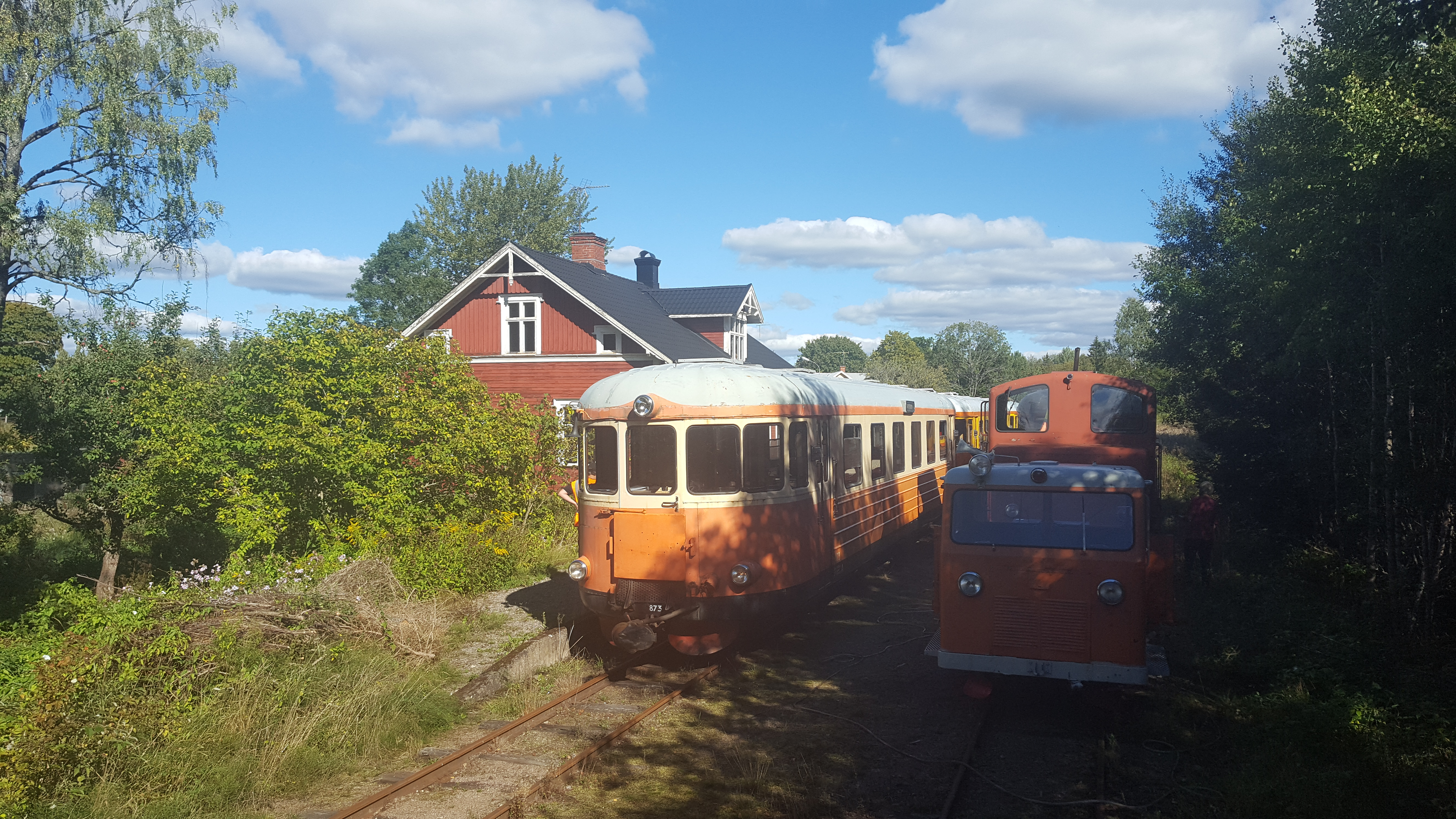 A train station in Hultanäs, Sweden, on a remaining part of a narrow-gauge Växjö–Åseda–Hultsfred railway. It is currently (2016) only used by tourist trains.